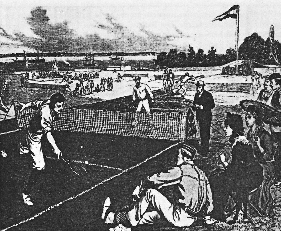 First Official Tennis Tournament in the US, Staten Island Cricket Club, New York City, on September 1st, 1880.